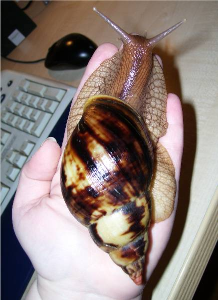 Achatina albopicta